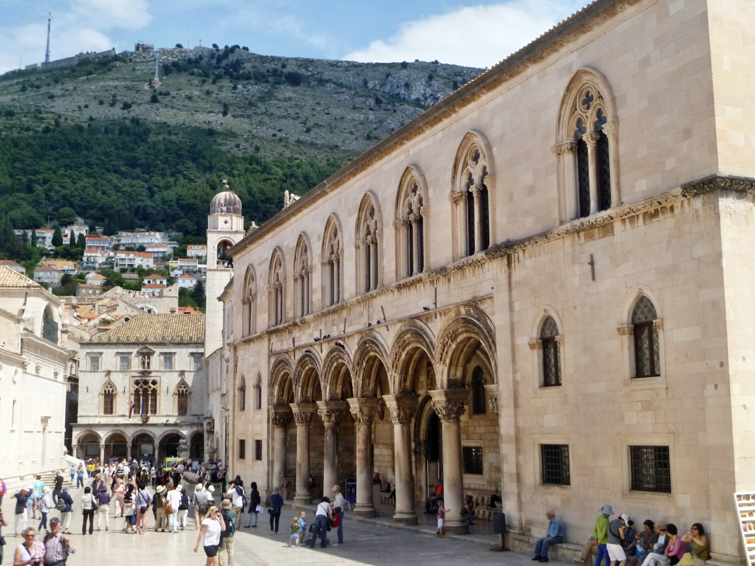 Rector's palace, Dubrovnik, Croatia